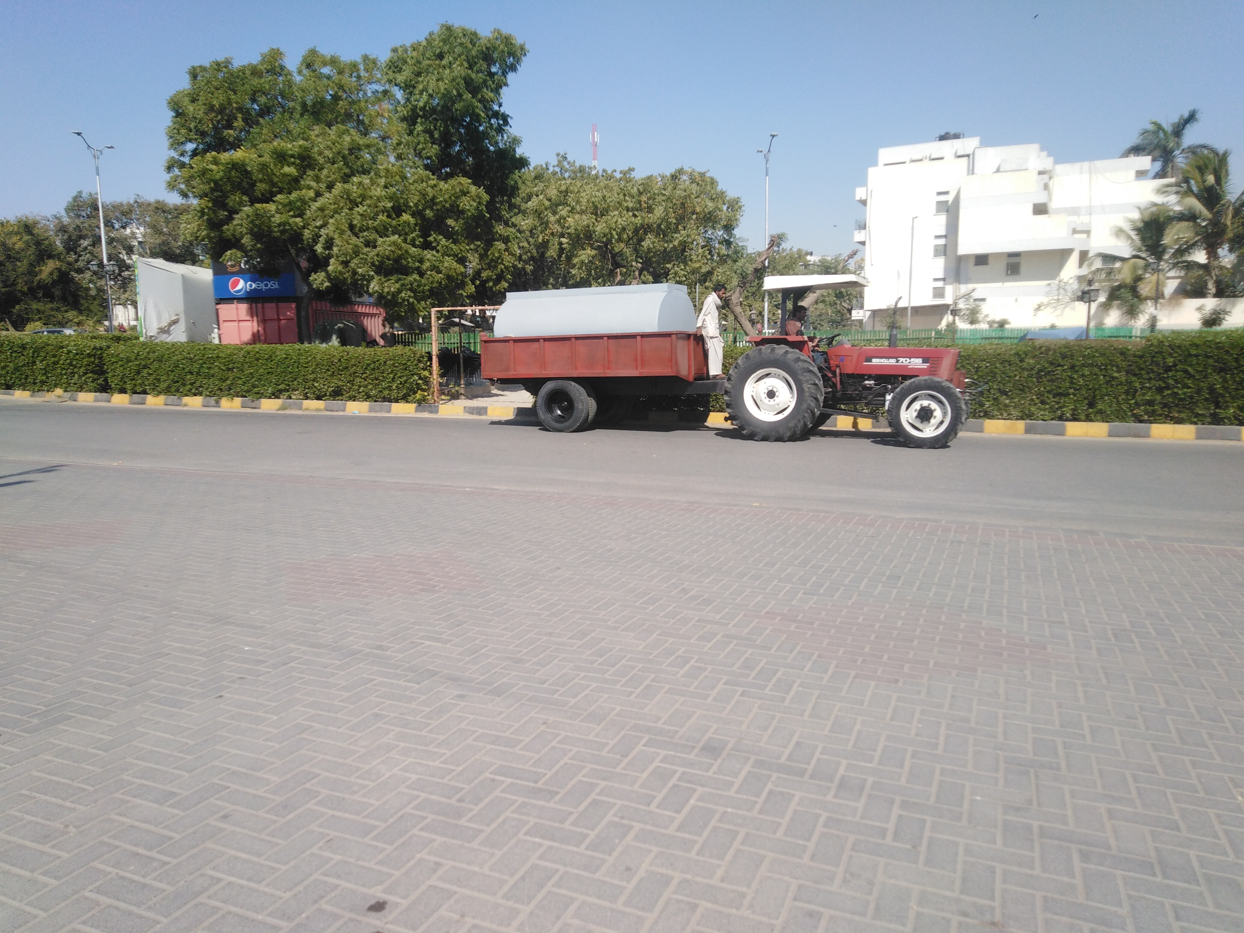 This is my work.